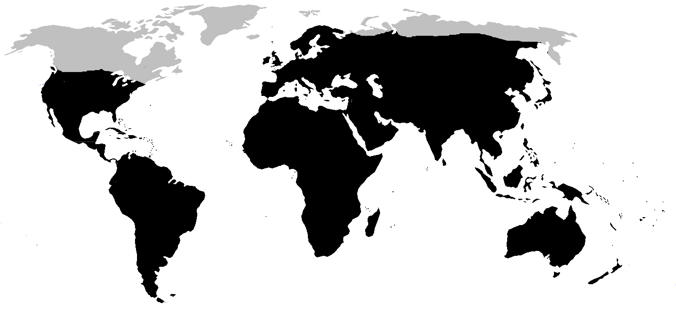 World distribution of Order Sauria, after data from Cogger, H.G & Zweifel, R.G. (1998). Reptiles & Amphibians". ISBN 0121785602